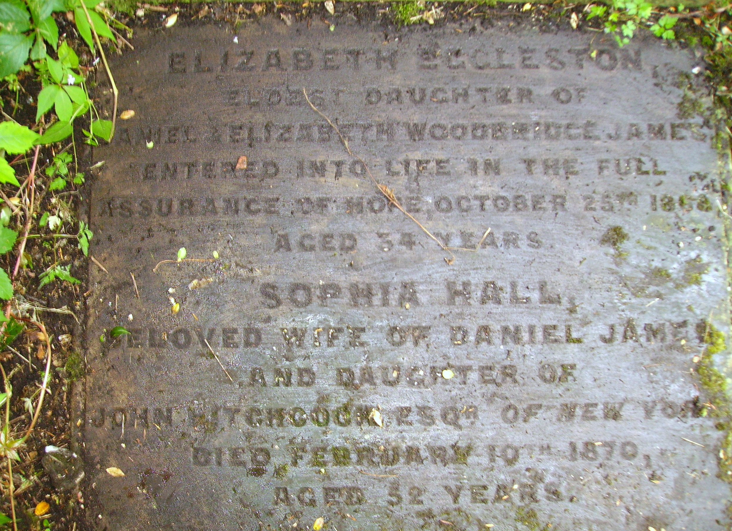 Gravestone of Daniel James's wife and daughter located St Andrew's, West Dean, West Sussex, UK. The inscription reads: ELIZABETH ECCLESTON BELOVED DAUGHTER OF DANIEL & ELIZABETH WOODBRIDGE JAMES ENTERED INTO LIFE IN THE FULL ASSURANCE OF HOPE OCTOBER 25TH 1868 AGED 34 YEARS SOPHIA HALL BELOVED WIFE OF DANIEL JAMES AND DAUGHTER OF JOHN HITCHCOCK ESQR OF NEW YORK DIED FEBRUARY 10 1870 AGED 52 YEARS